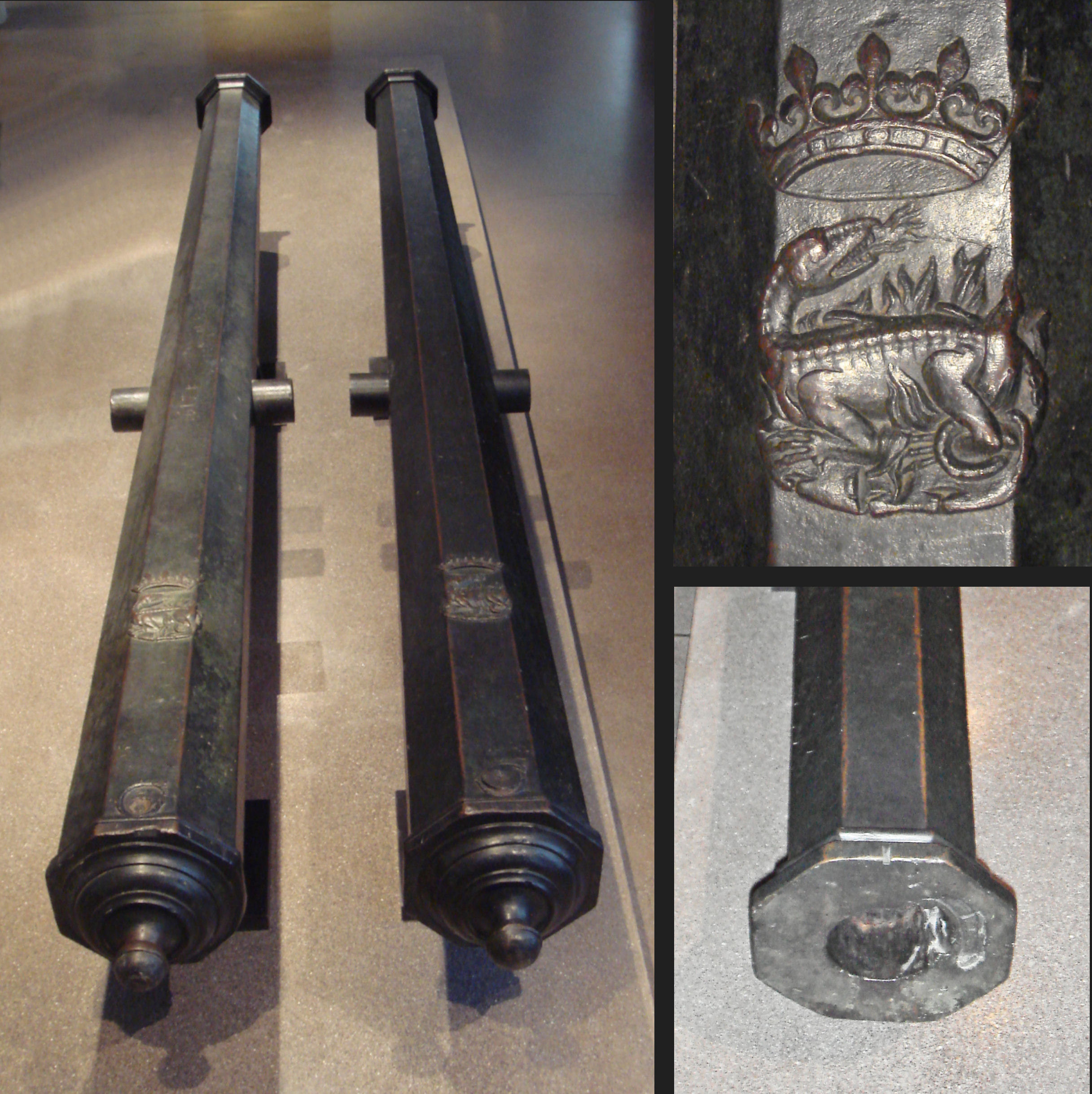 Coulevrines_moyennes_French_work_Francis_I_1520_82mm_77mm_295cm_617kg_iron_ball_1500g_alt.